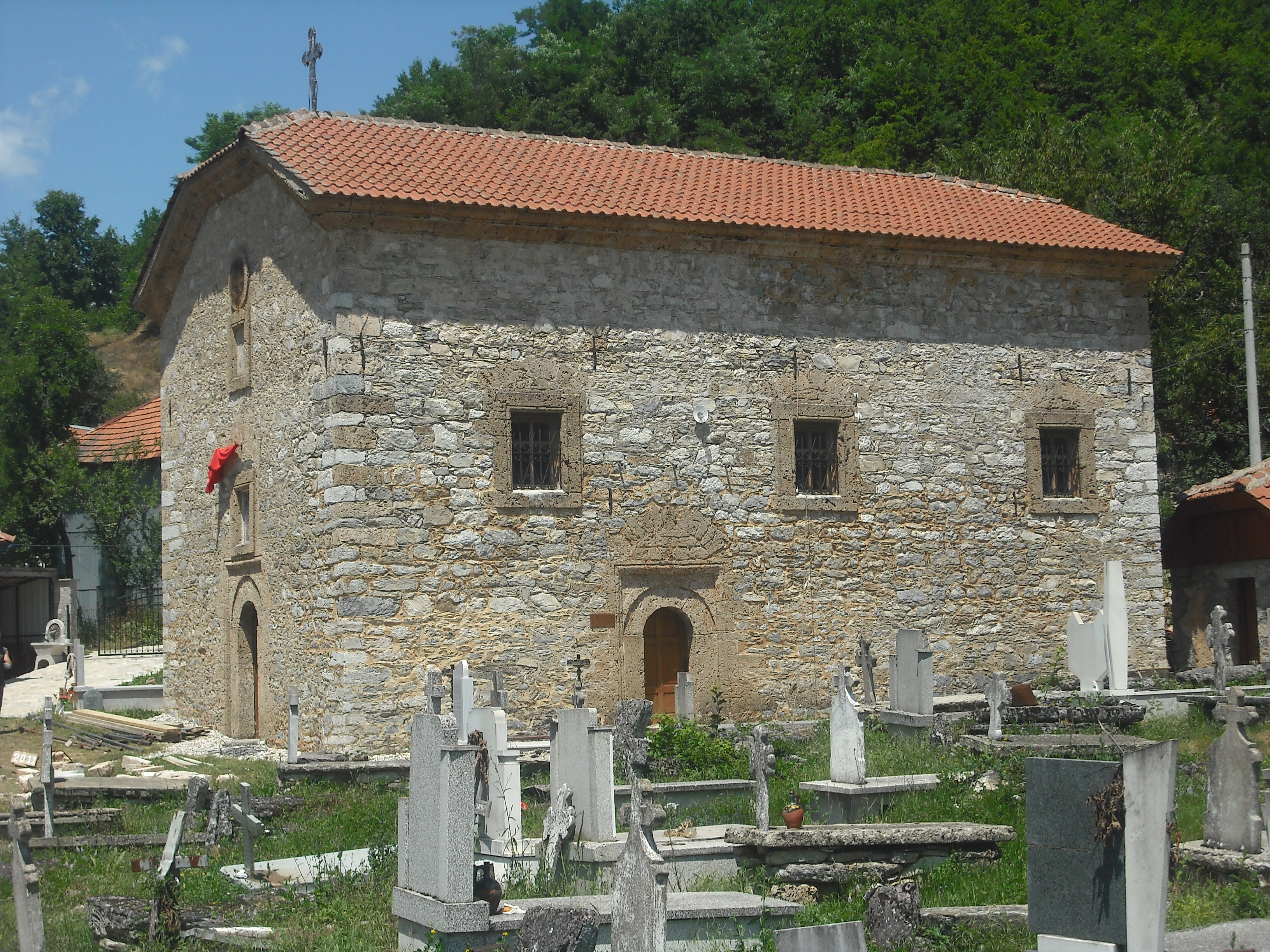 The church of St Nicholas in the village of Mramorec, the region of Debarca, the Republic of Macedonia.